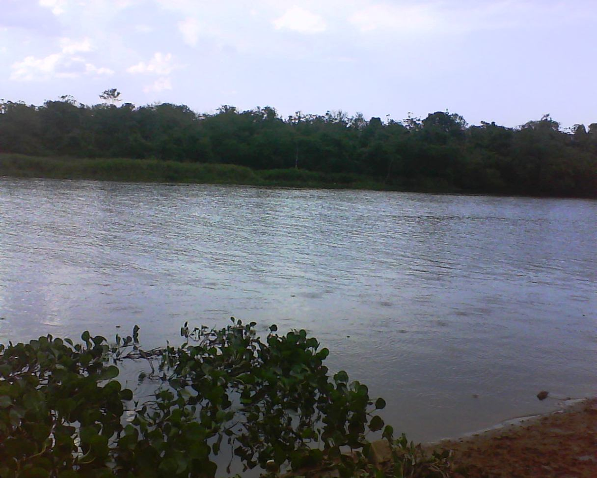 Acaray River